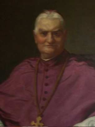 Tibor Boromisza 1840-1928, Bishop of Satu Mare 1906-1928